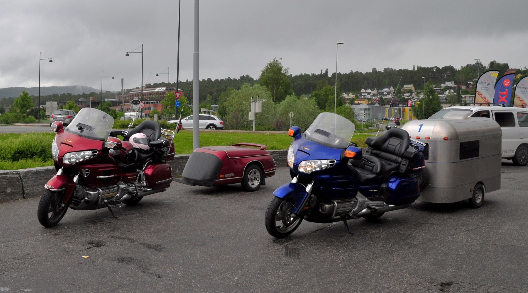 Gold Wings GL 1800 in Trondheim